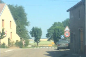 Dos d’ane